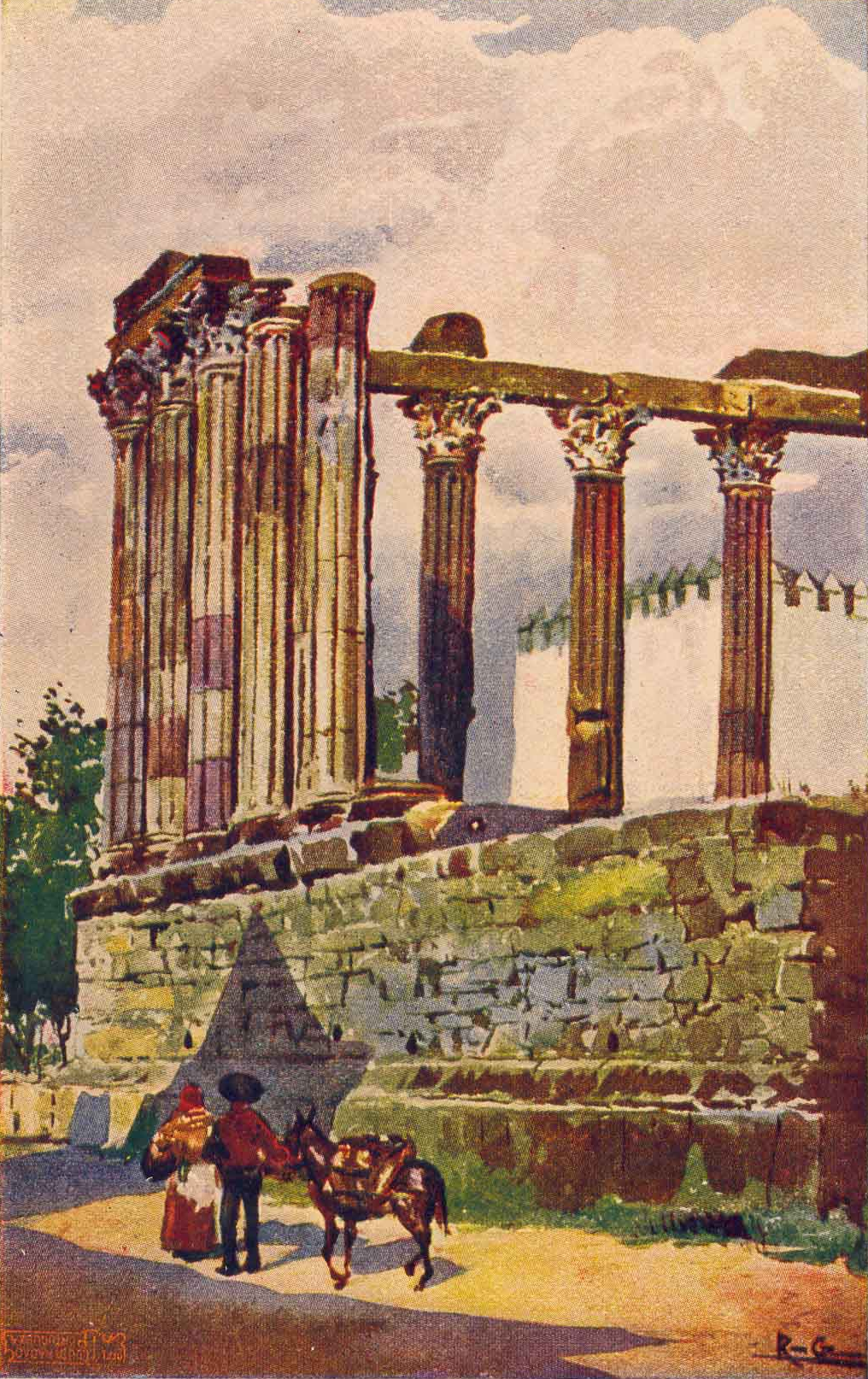 "Temple of Diana [sic] in Évora", by Roque Gameiro, in Quadros da História de Portugal ("Pictures of the History of Portugal", 1917).